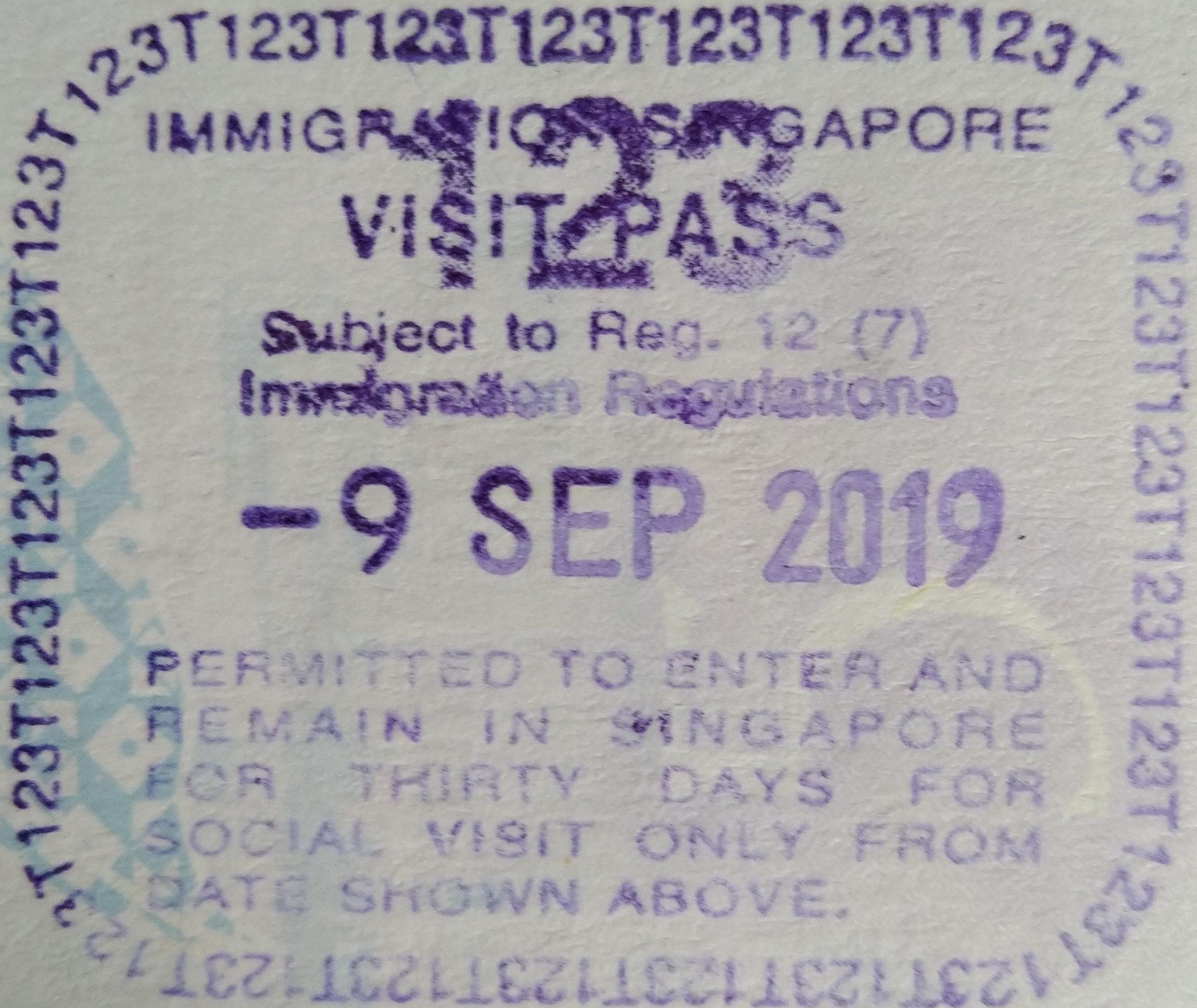 Singapore Immigration stamp in Malaysian Passport